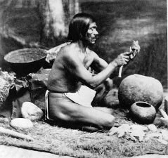 Rafael, a Chumash who shared Californian Native American cultural knowledge with anthropologists in the 1800s.